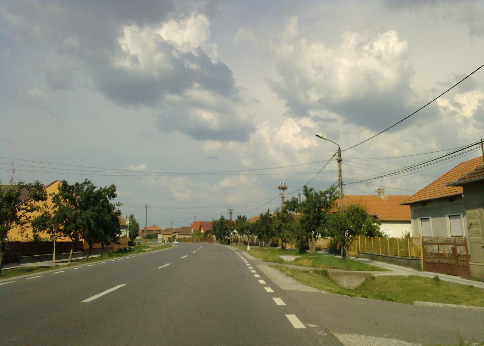 Petreşti Village, Satu Mare County, Romania